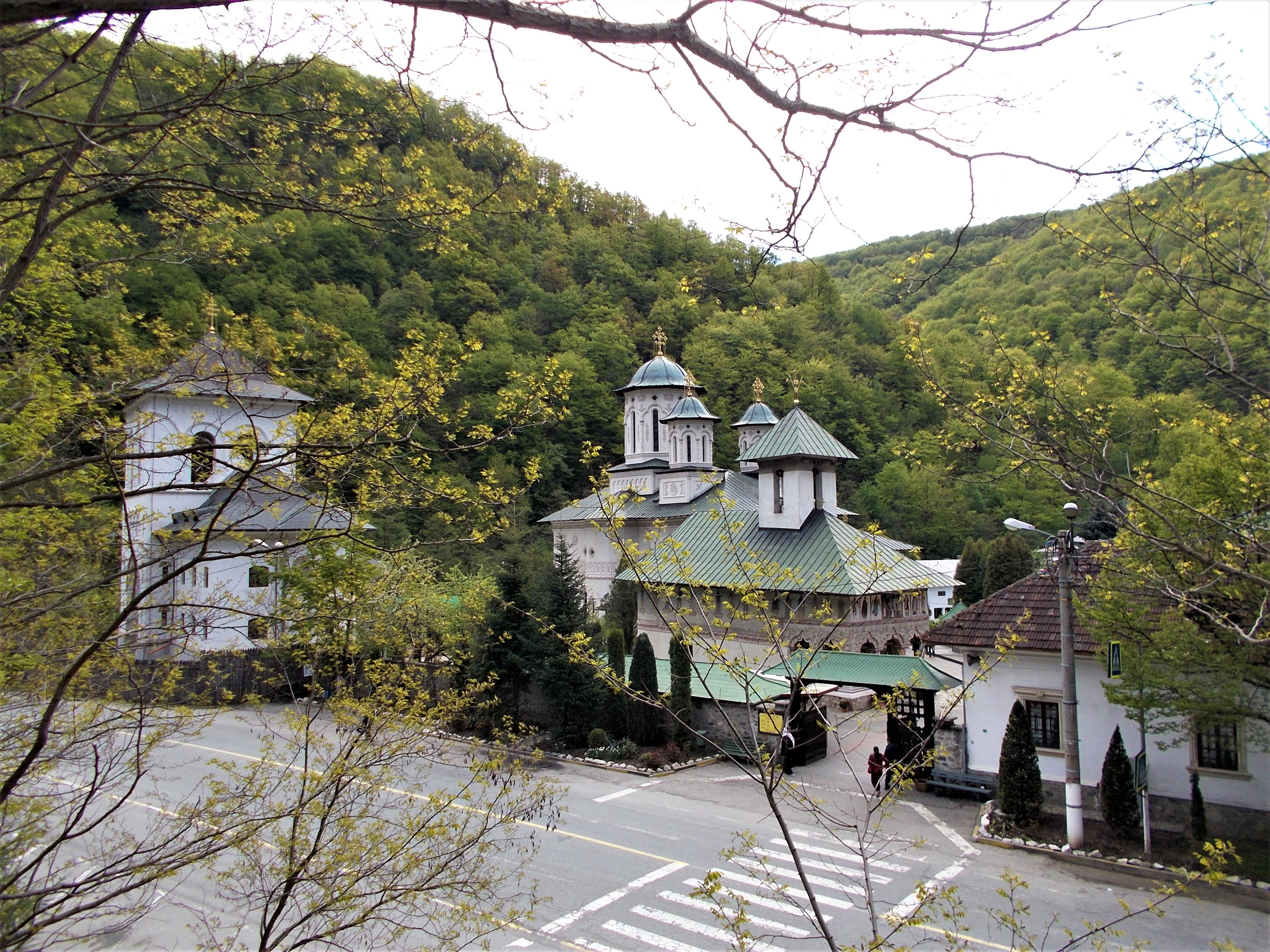 Lainici Monastery, Gorj County, Romania